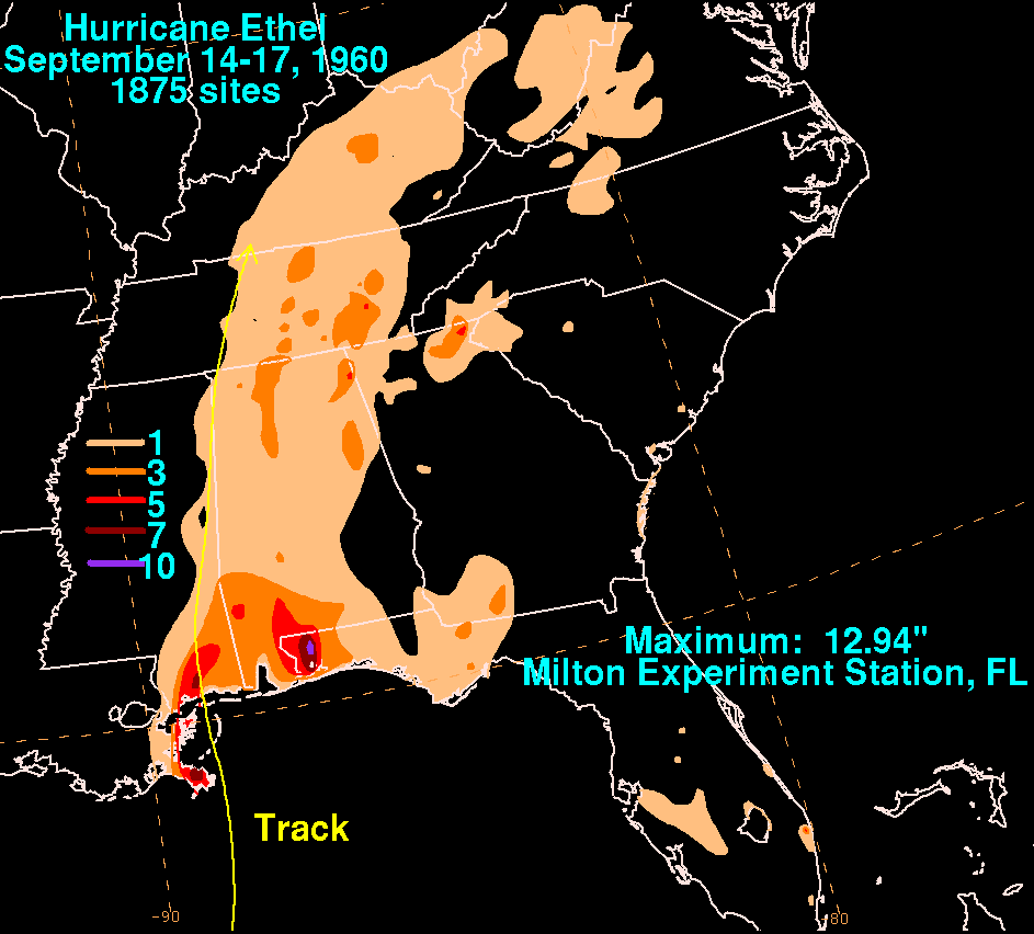 Rainfall produced by Hurricane Ethel during September 1960.